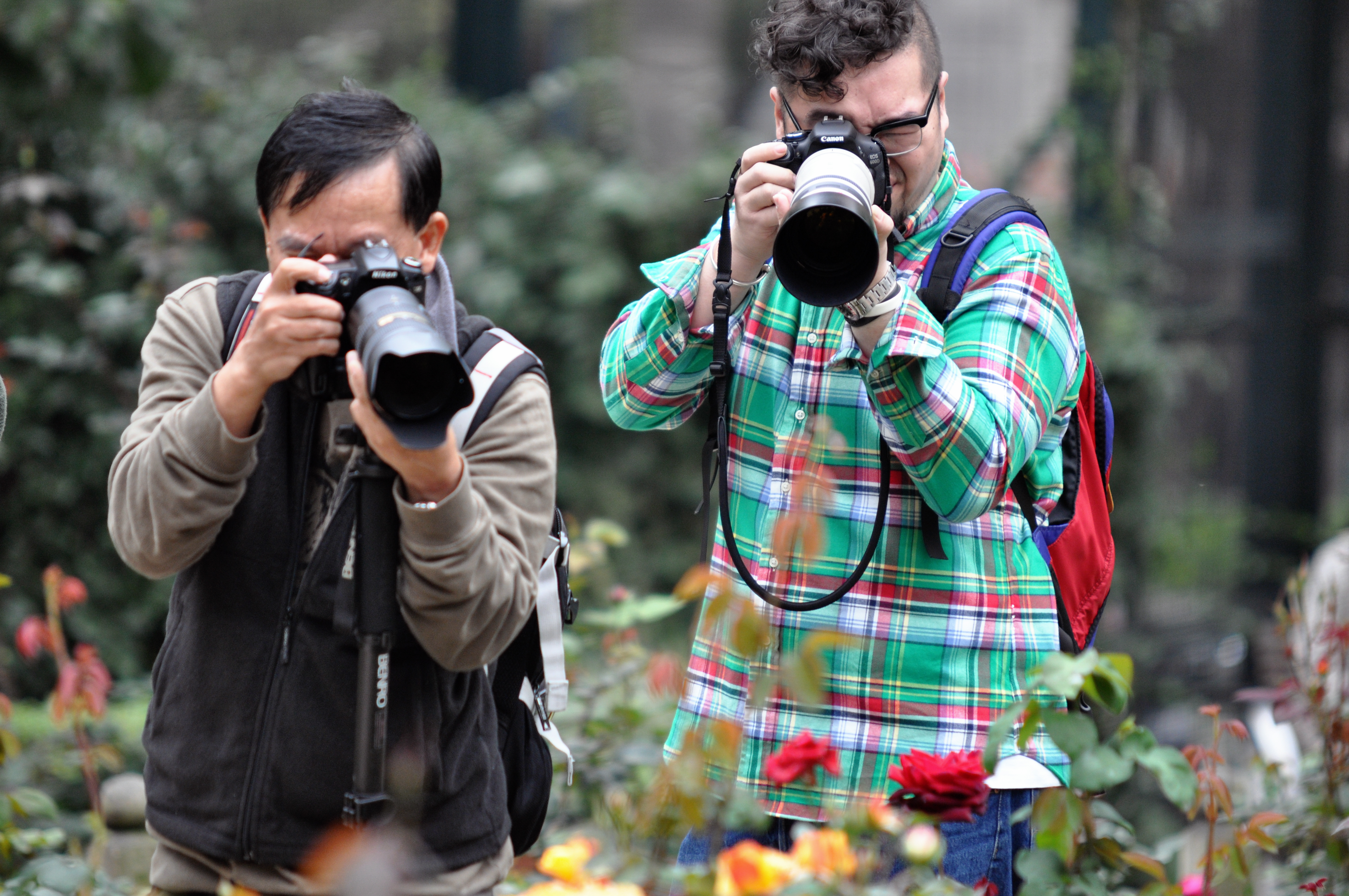 On Sunday afternoons the flower garden of Kowloon Park is full of amatuer photographers taking shots of the roses. In this case for me the photographers themselves were the most interesting subjects.